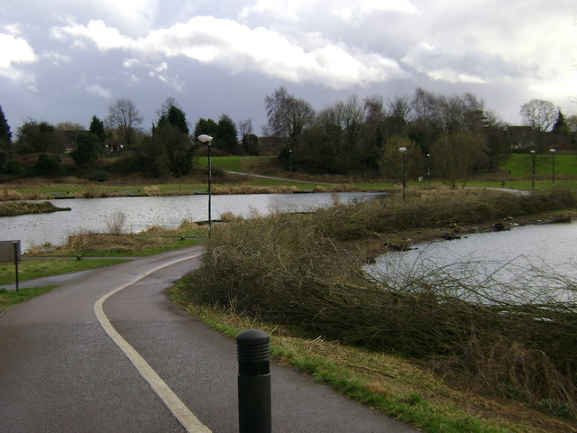 Kingfisher Pool, Myton Fields Kingfisher Pool, left, was created for supervised junior and disabled anglers. A pool for wildlife, right, has been protected recently by a dead-hedge. The view is from Charter Bridge, built in 1996 to carry a footpath and cycleway, which provide safer routes to schools on either side of the River Avon.